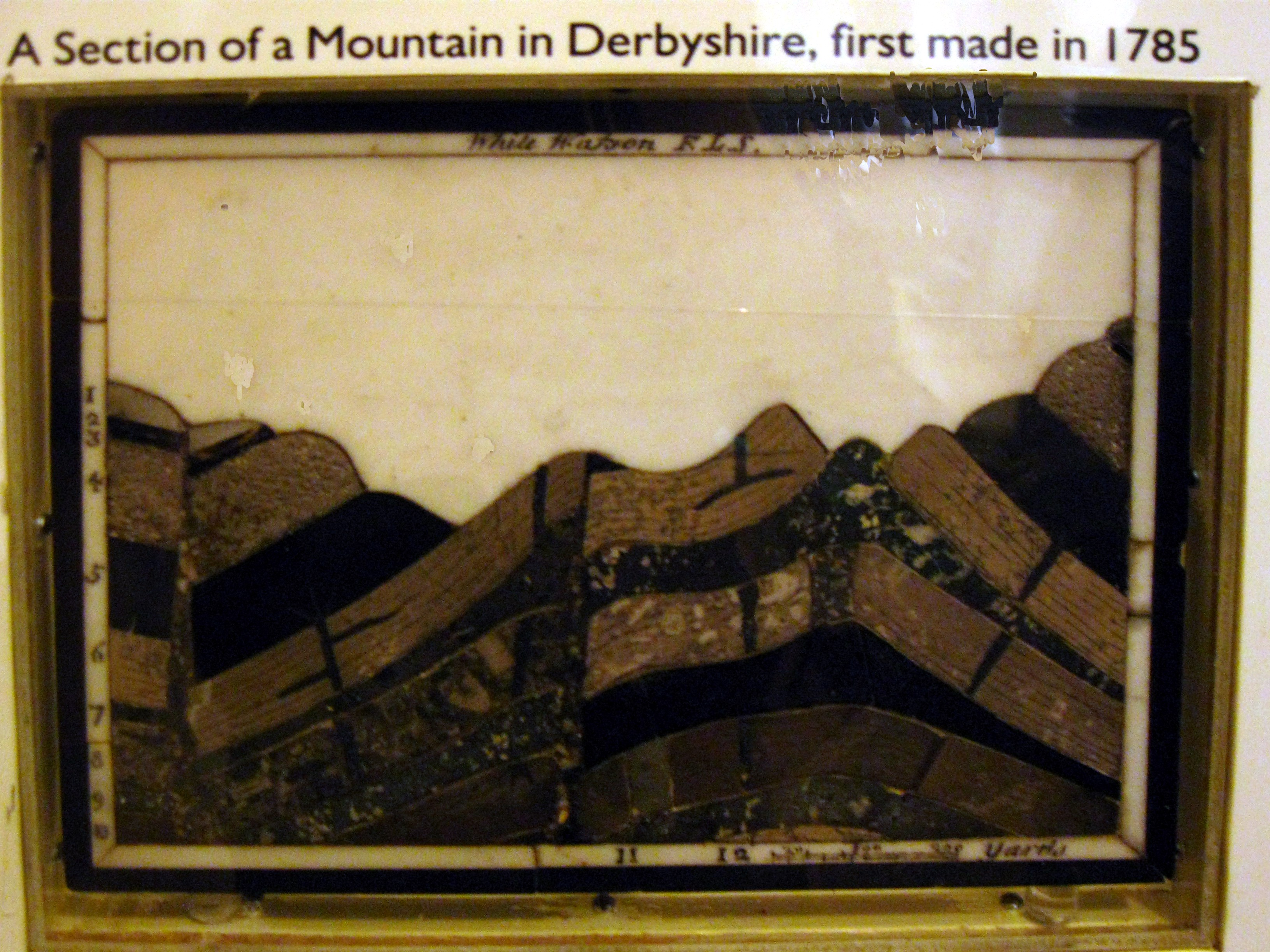 Model of Derbyshire strata made by White Watson